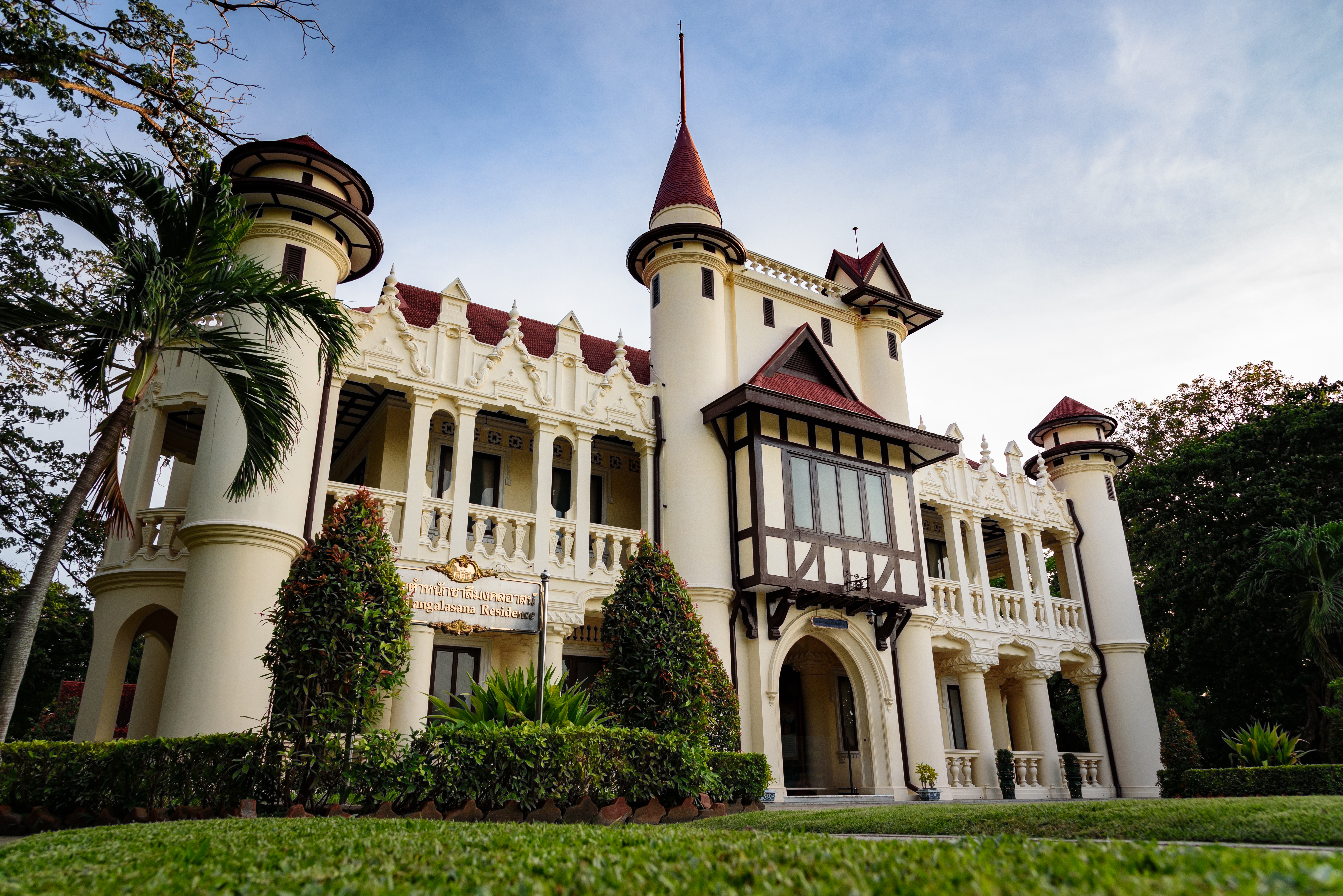 Jalimangalasana Residence, Sanamchandra Palace, Nakhon Pathom